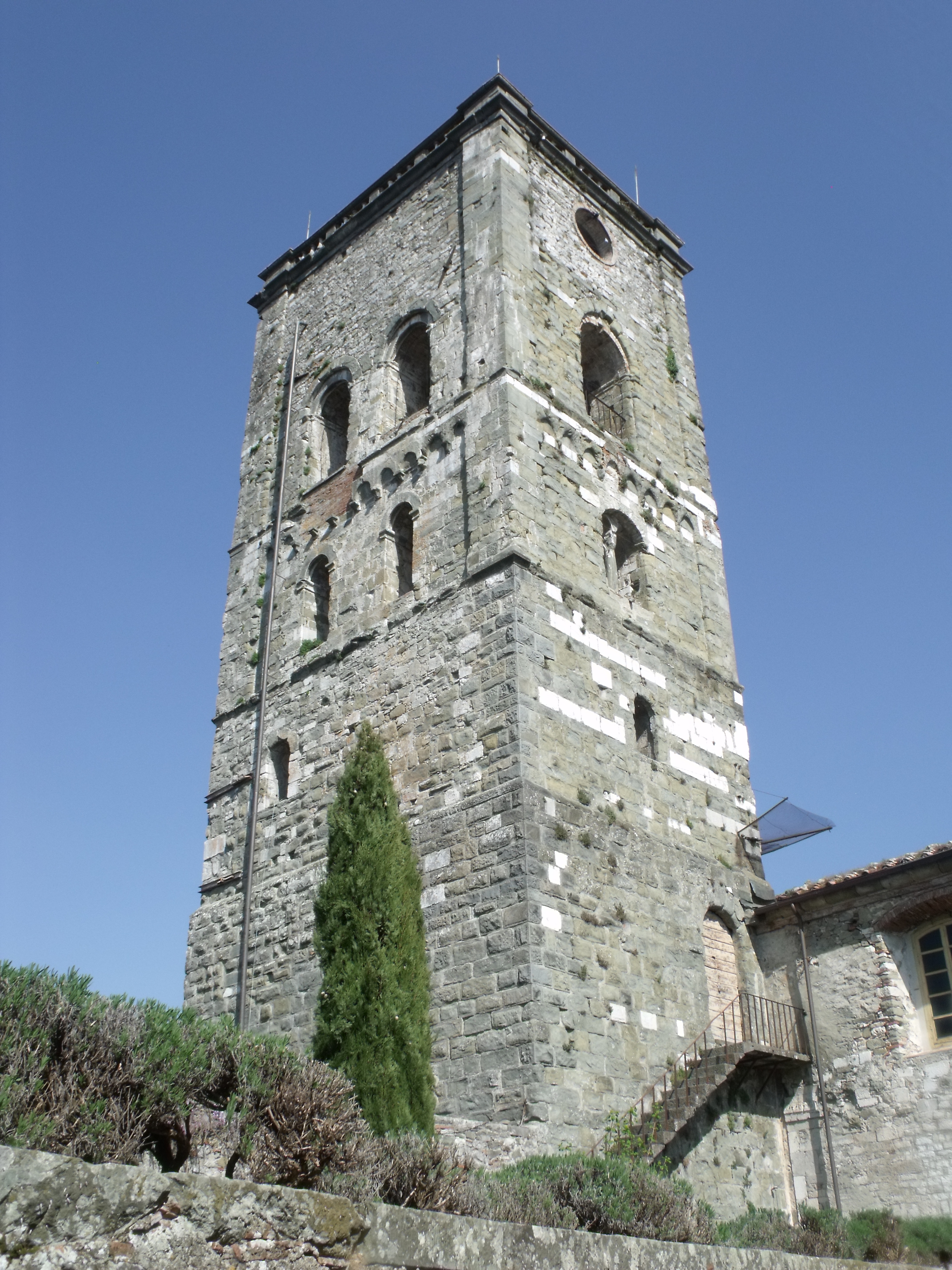 Campanile of San Michele in Coreglia Antelminelli, Province of Lucca, Tuscany, Italy